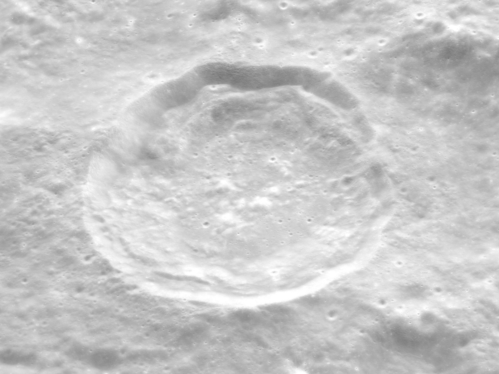 Oblique view of Schorr crater, on the moon. Taken by Apollo 17 panoramic camera during Trans-Earth Injection. Rotated so foreground is at bottom, and brightness and contrast adjusted, using GIMP.